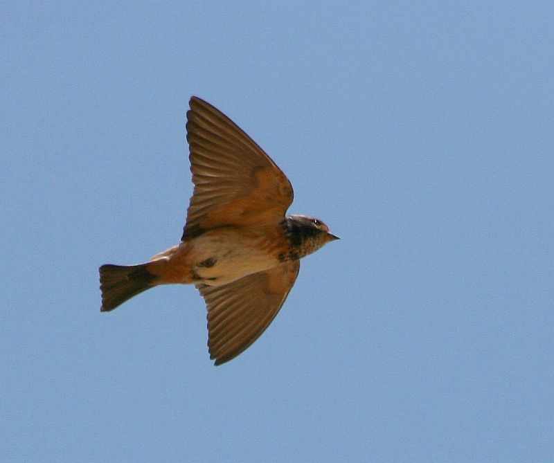 South African Swallow (Petrochelidon spilodera) in flight. Location: North of Bergville, KwaZulu-Natal, South Africa.